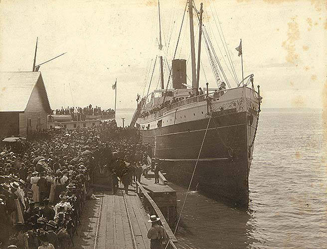 Caption on mount: "First treasure boat from the Klondike in '98, Seattle." Subjects (LCTGM): Piers & wharves--Washington (State)--Seattle; Ships--Washington (State)--Seattle Subjects (LCSH): Roanoke (Ship)